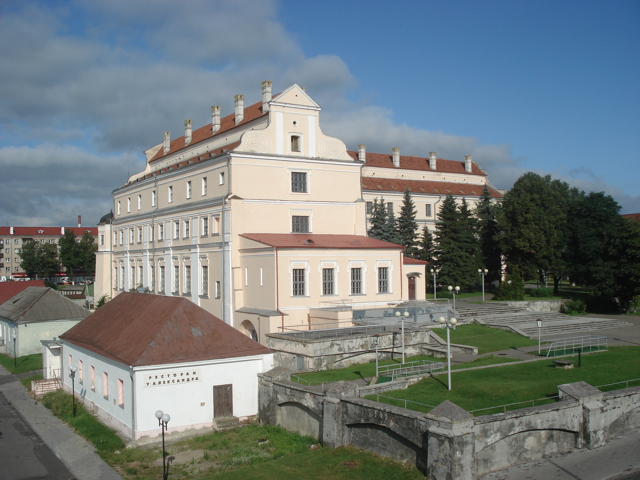 Jesuit Collegium, Pinsk